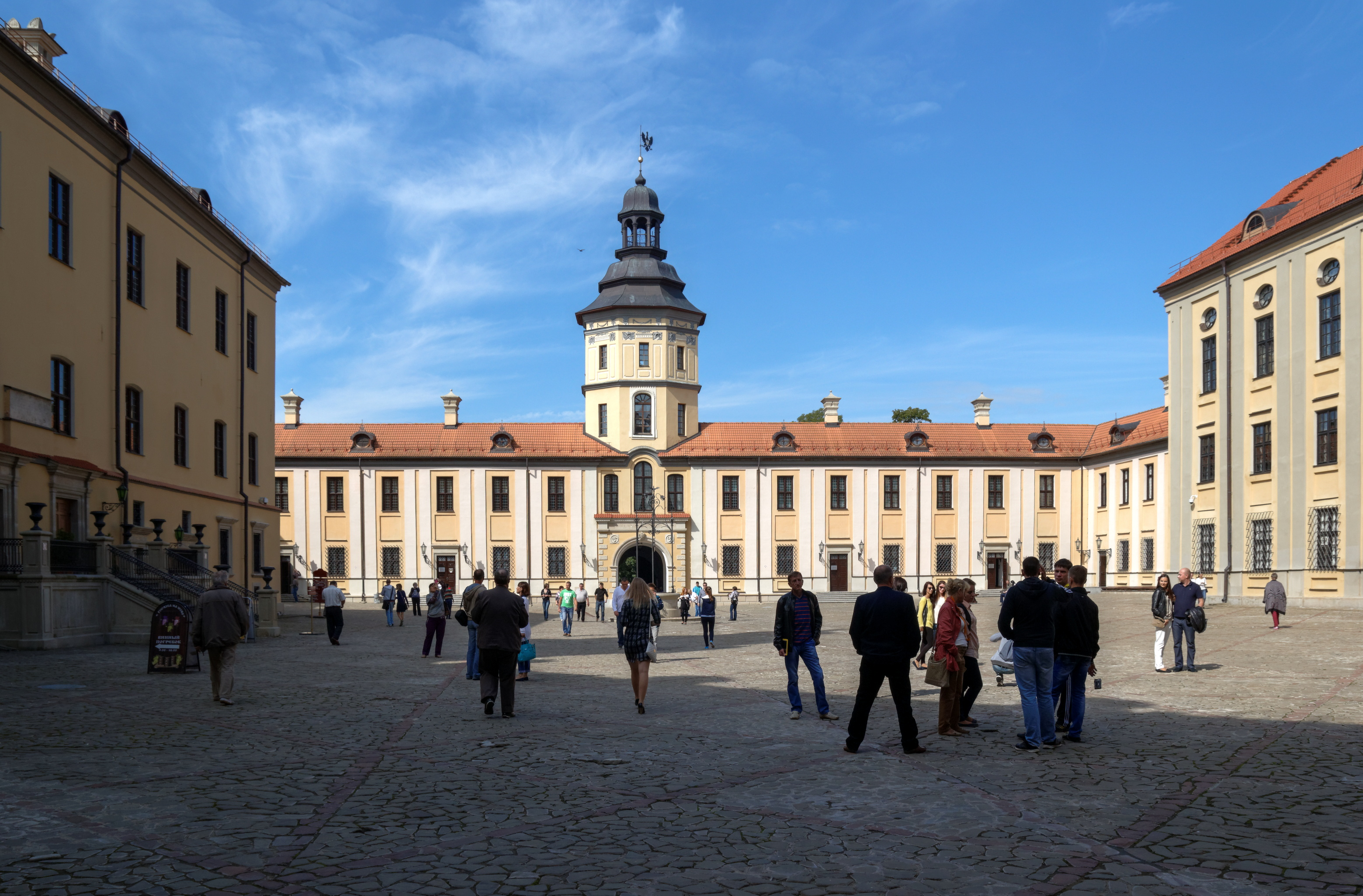 Belarus. Nesvizh Castle